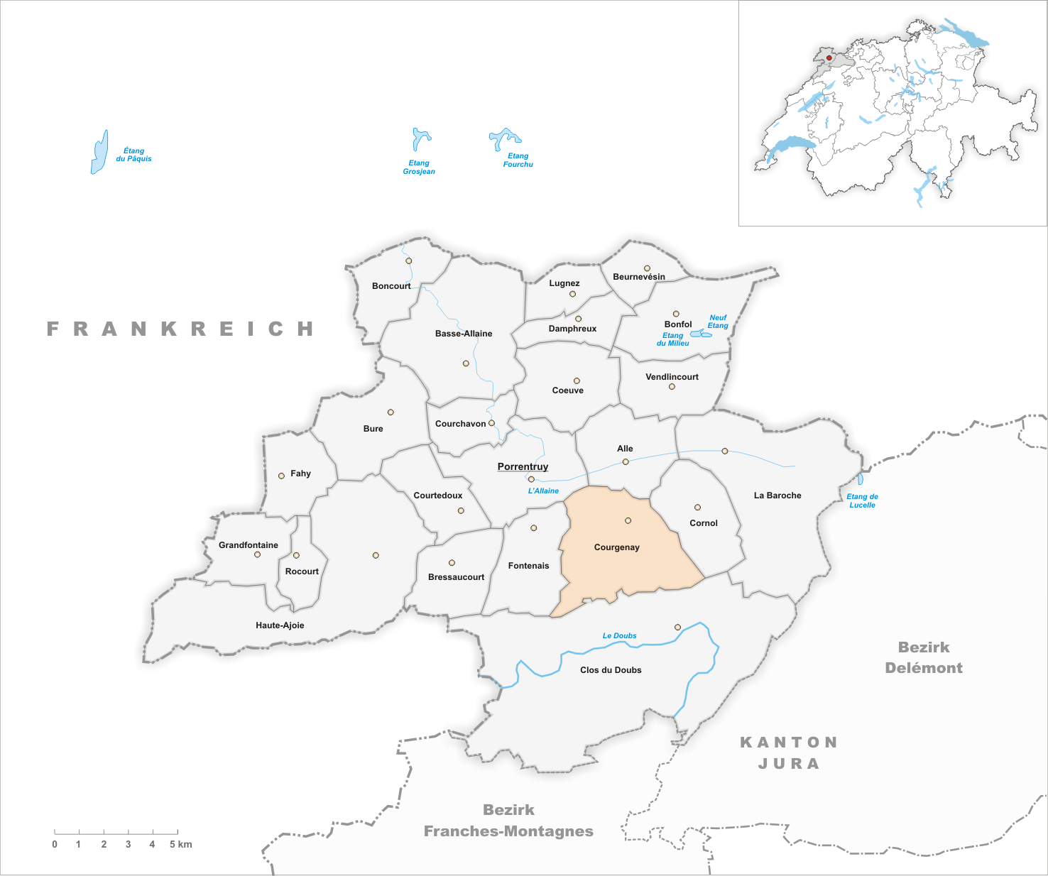 Municipality Courgenay